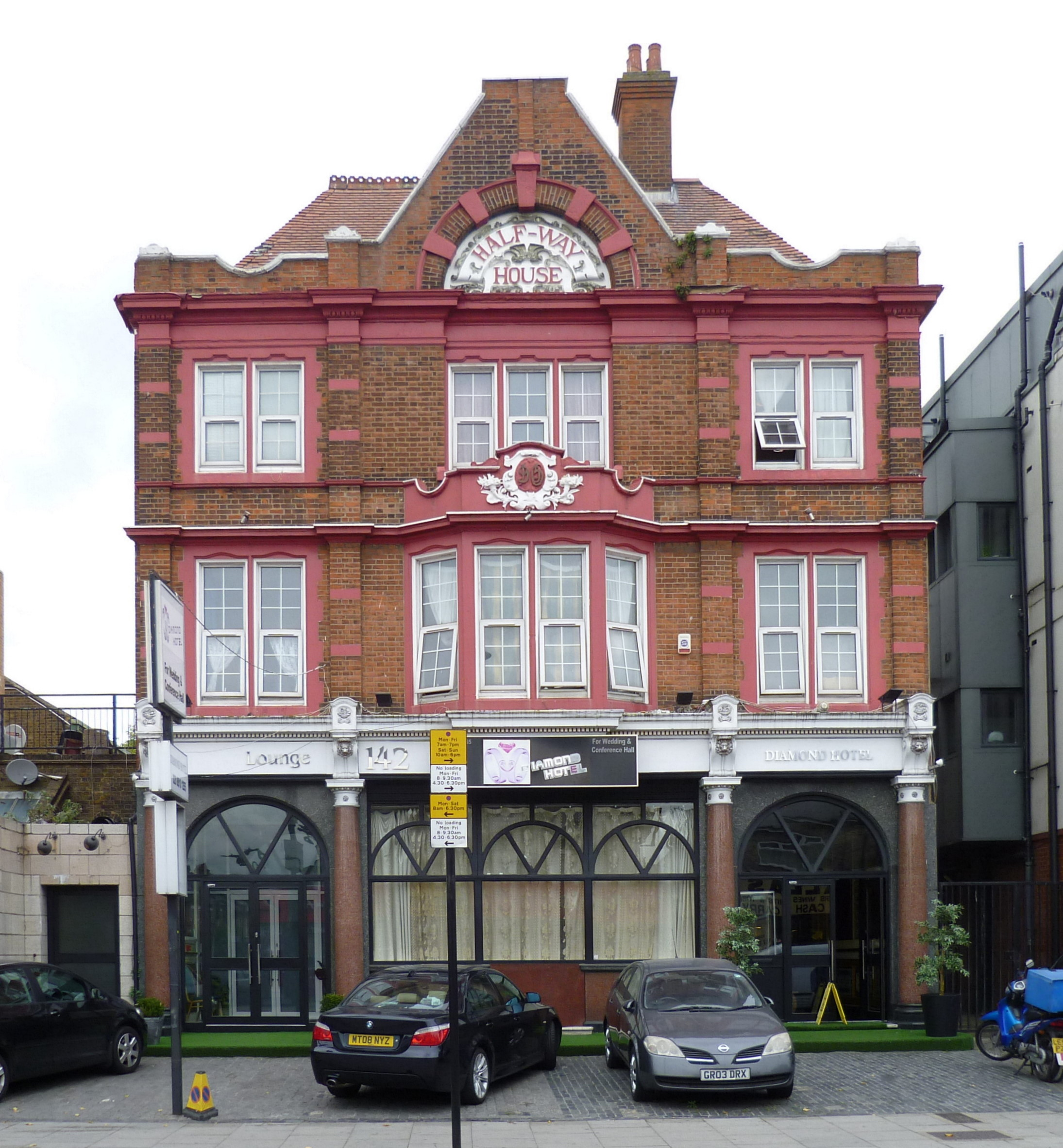 Half Way House, Uxbridge Road, West Ealing